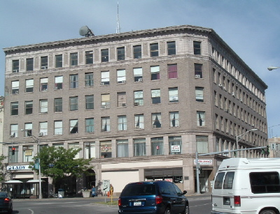 Woolworth Building, Watertown, NY. Built in 1921. Photo: 2004.